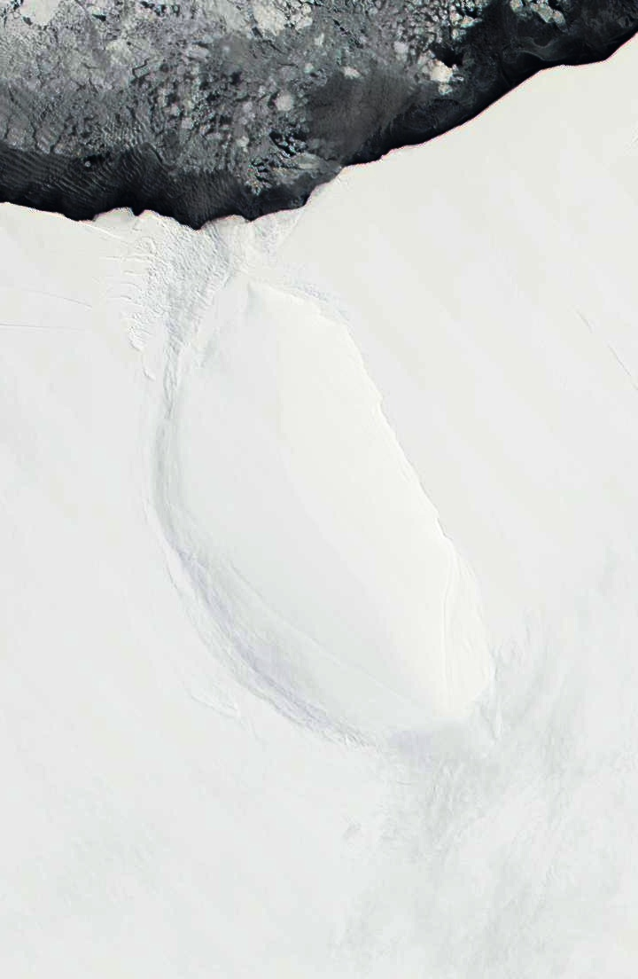 Roosevelt Island and coast of Ross Ice Shelf, Antarctica. Darkened and cropped from a wider view of the ice shelf, a true-color image from NASA’s Moderate Resolution Imaging Spectroradiometer (MODIS) taken on November 11 and 12, 2001.